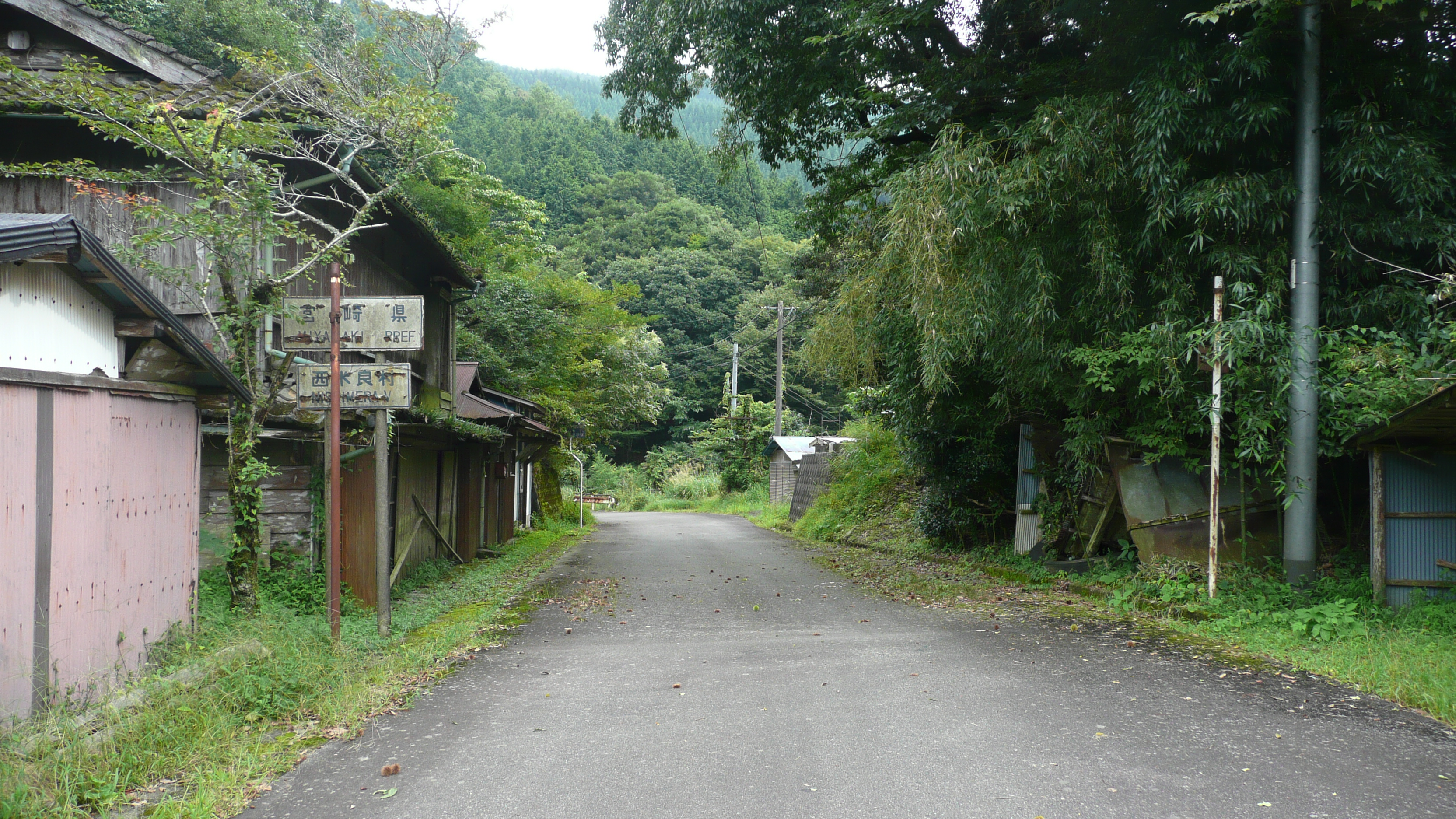 Yokotani Pass (Former National Route 219 - Yunomae, Kumamoto, Japan)